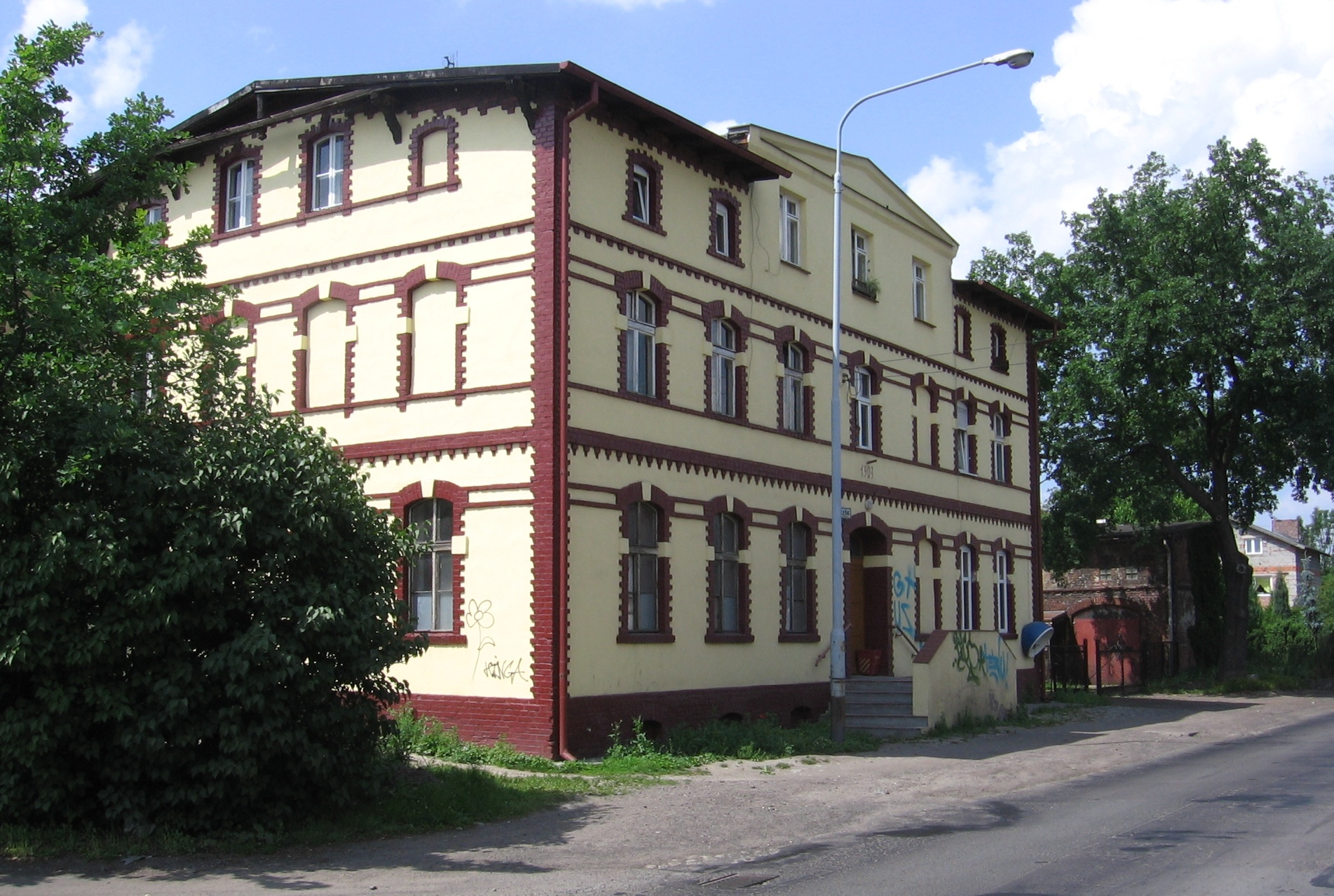 Wrocław, Poland - settlement Polanowice - old building erected 1903